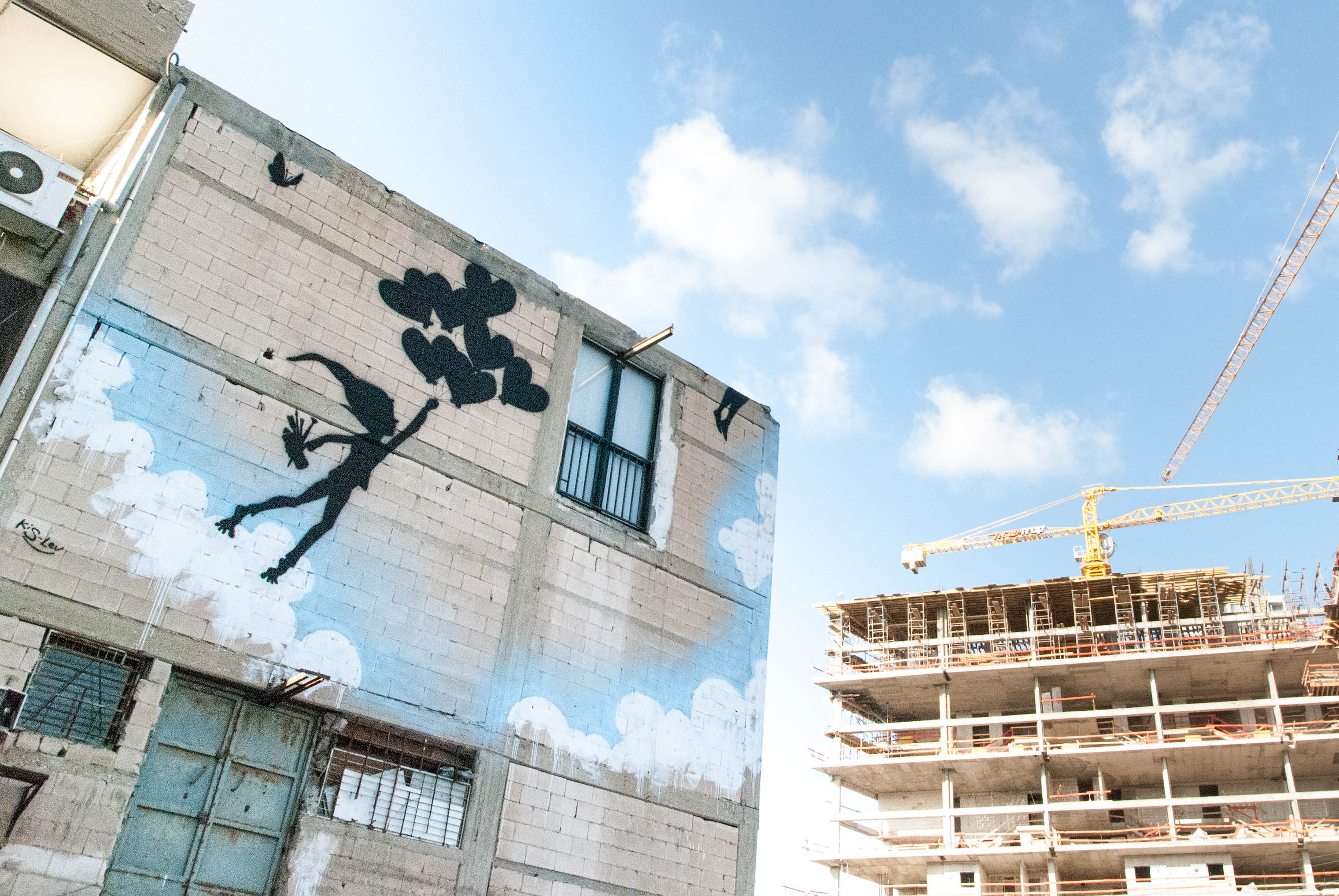 Graffiti Tel Aviv, Elifelet Street - side